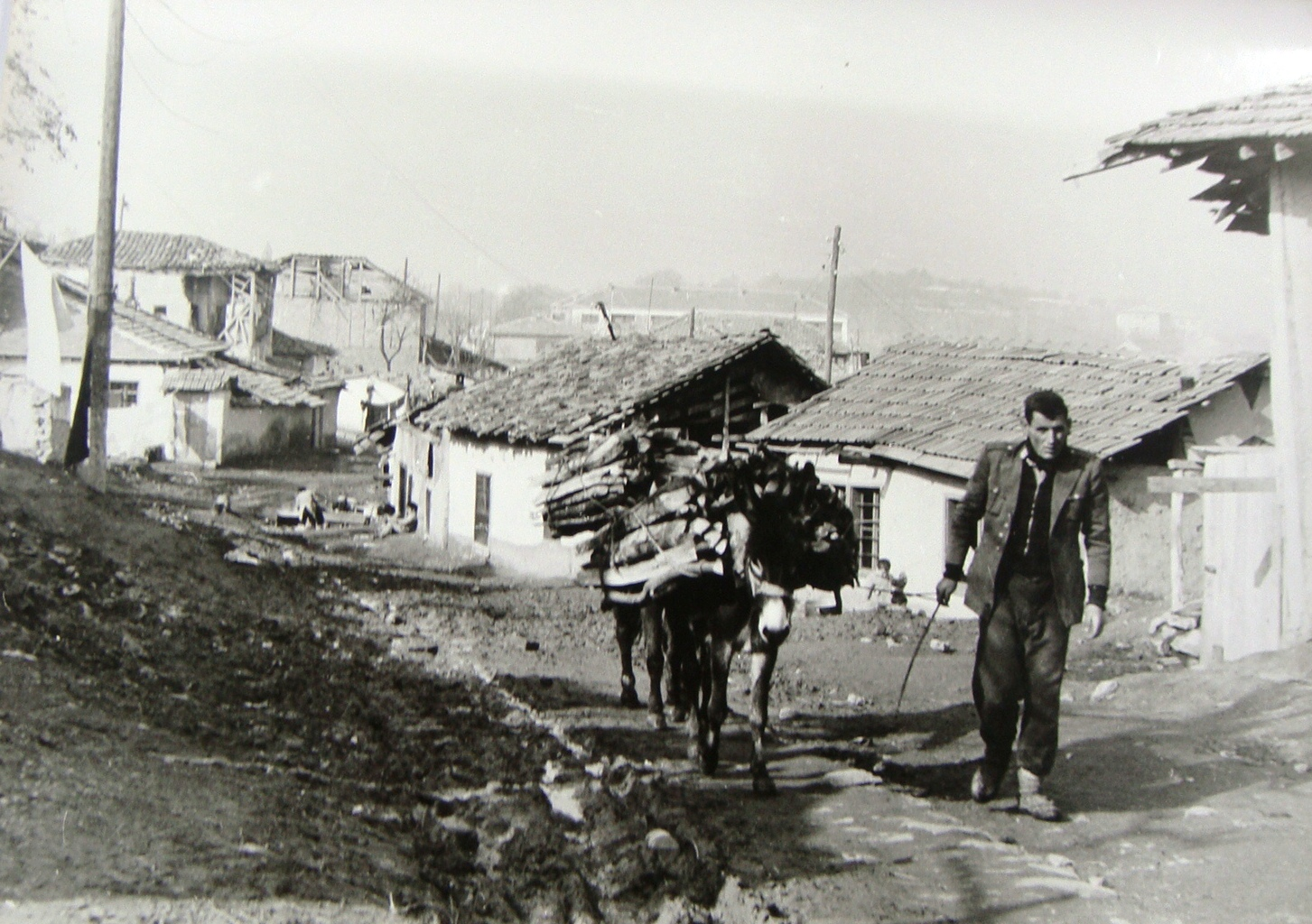 Topaana, quarter of Skopje, photo taken before 1962 This media file is produced by Wikipedian in Residence in Category:Wikipedian in Residence at DARM in 2016.